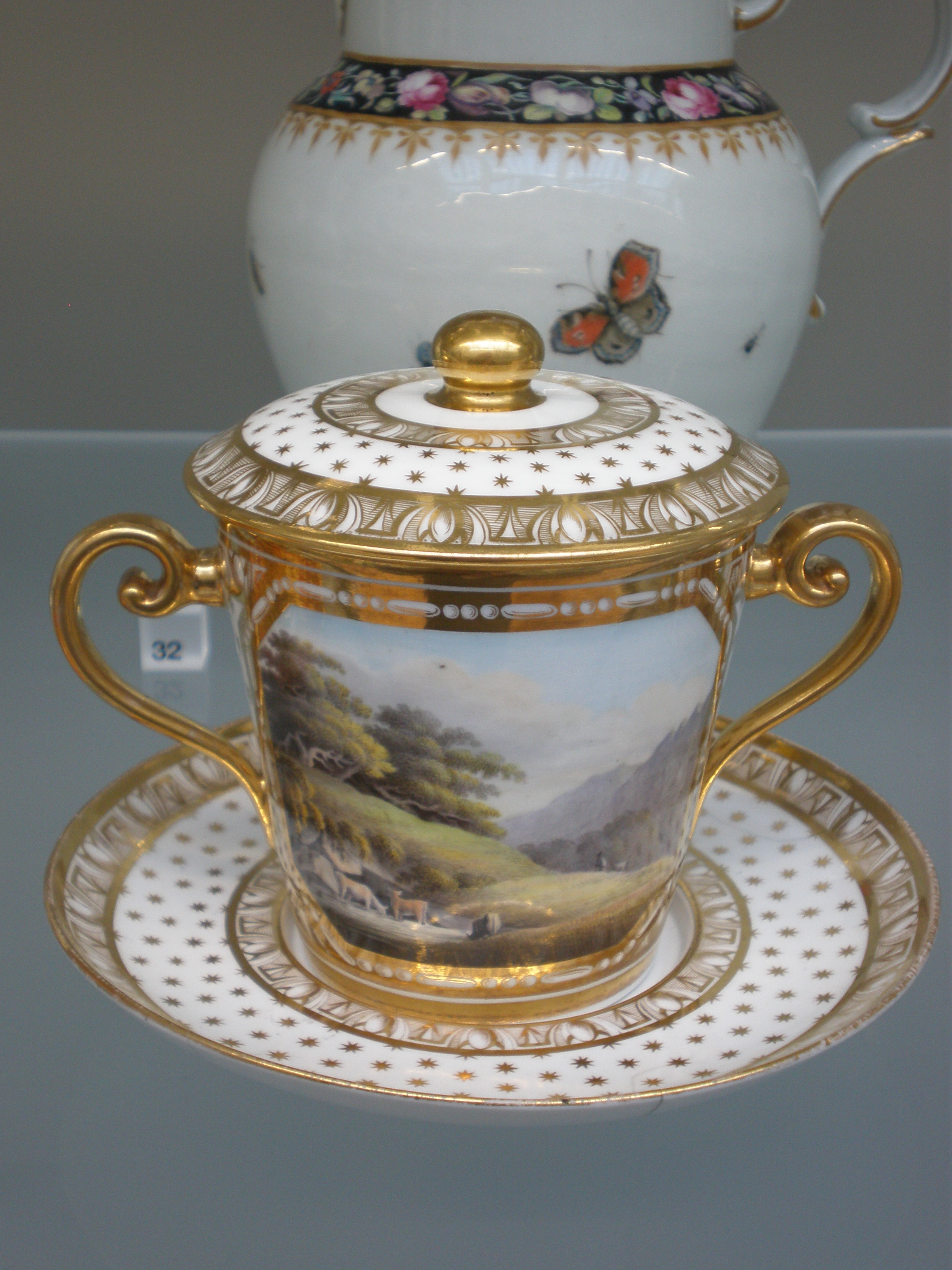 Staffordshire, 1815-20 Bone china, painted in enamels and gilded Collection ID: 414-1899 This photo was taken as part of Britain Loves Wikipedia in February 2010 by David Jackson.